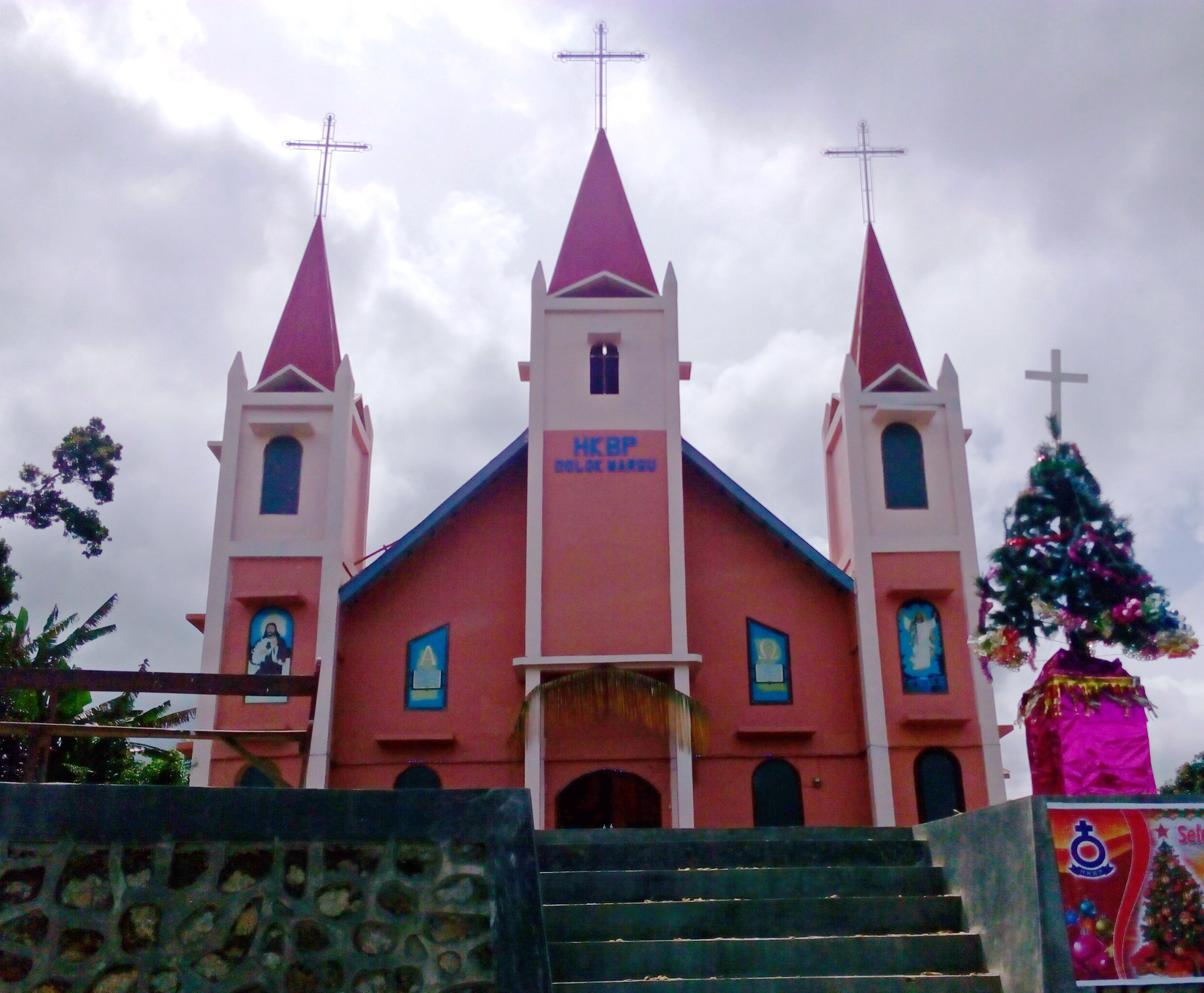 HKBP Dolok Margu, Church in Dolok Margu, Doloksanggul, Humbang Hasundutan